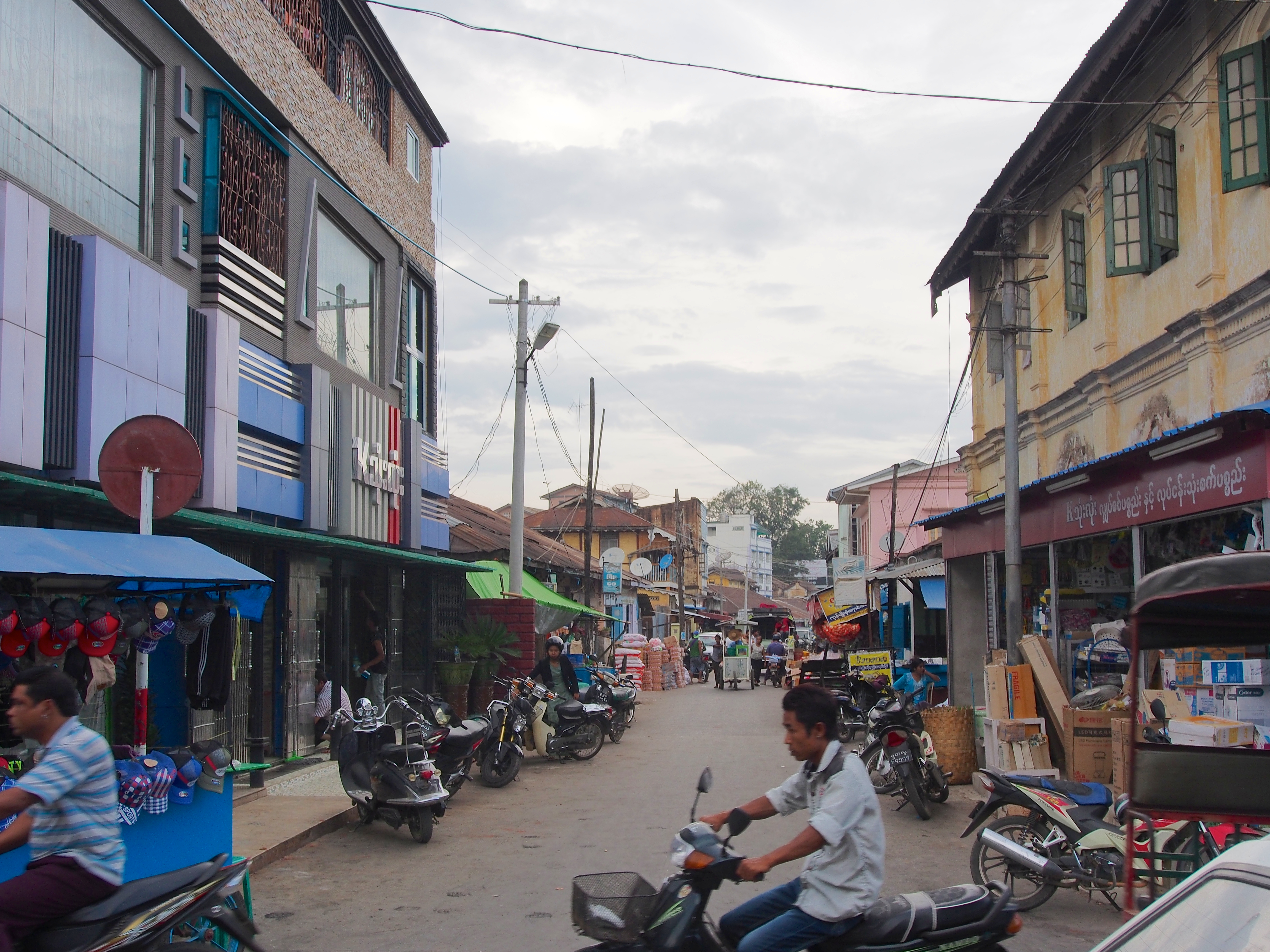 The Night Market : Every day around 5PM there is a night market with a lot of street food, behind the clock tower, which replaces the day market. You can find a lot of fried stuff also suitable for vegetarians, as well as traditional tea, amazing Myanmar salads as well as Indian food.